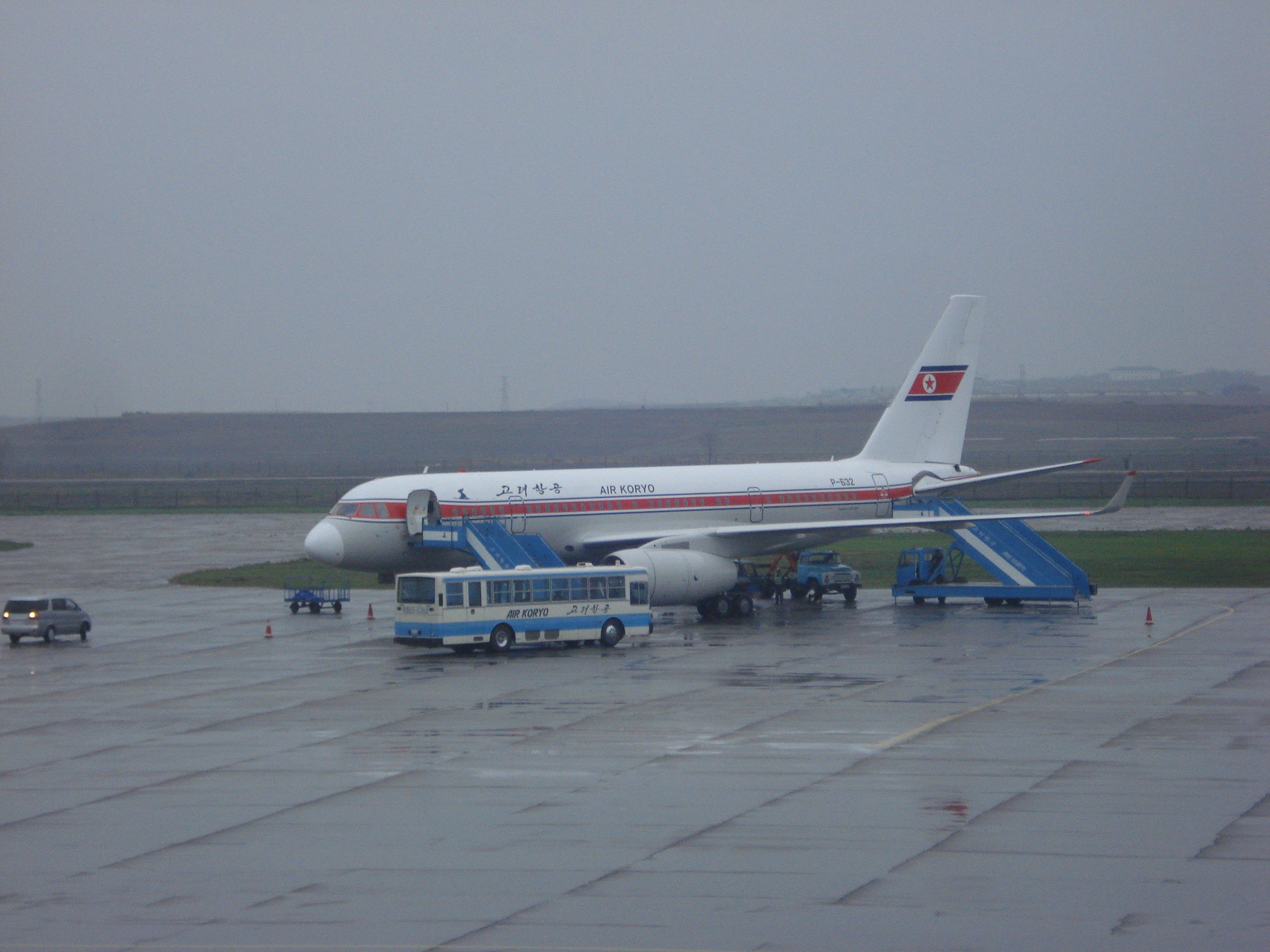 Air Koryo Tu-204 waiting for guests.